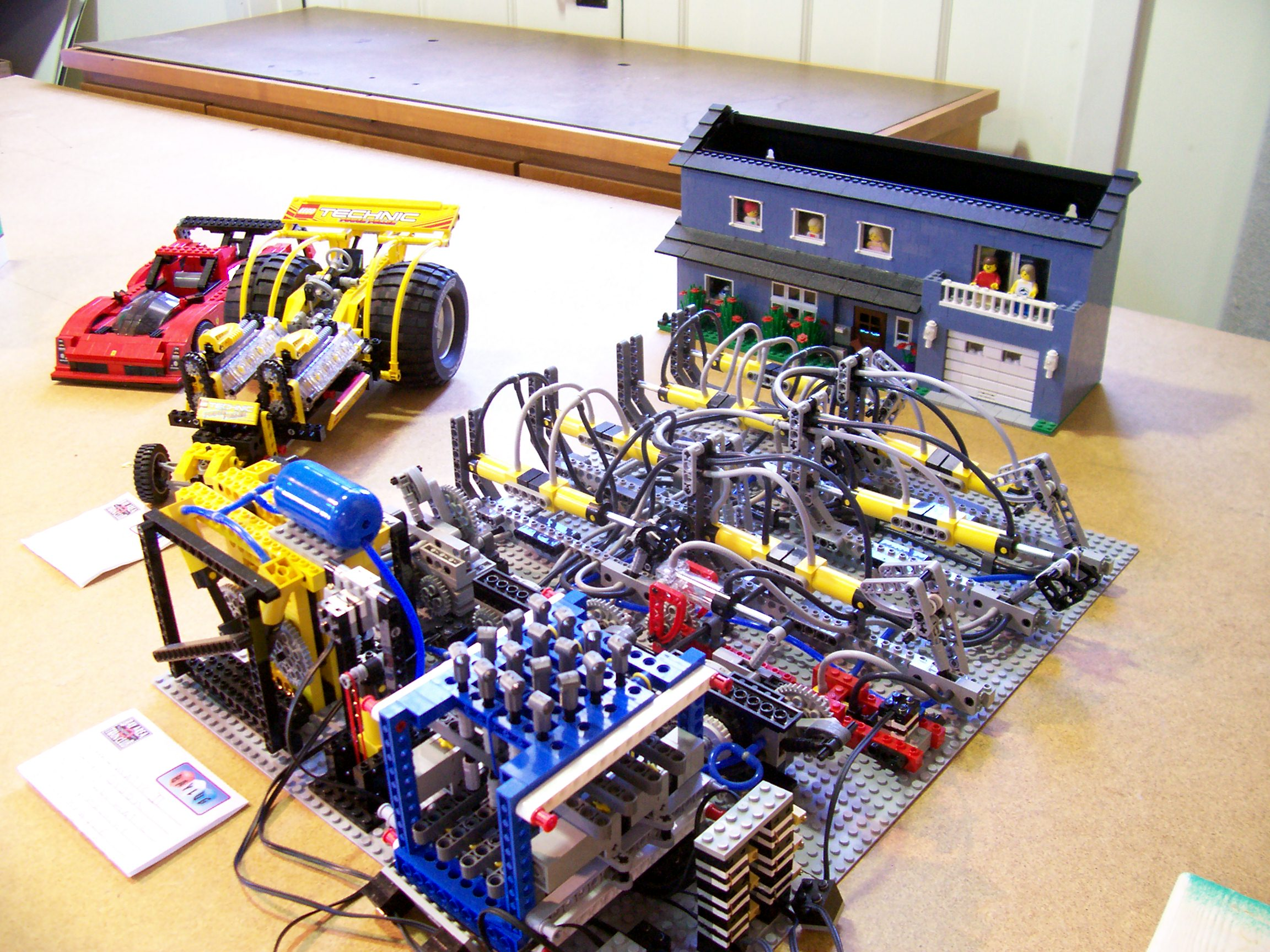 Jim's adding machine. Part of the Bay Area LEGO Users Group display at the [:en:Museum of American Heritage] in Palo Alto, CA. The display was on public view until January 6, 2008. Photos by Bill Ward.